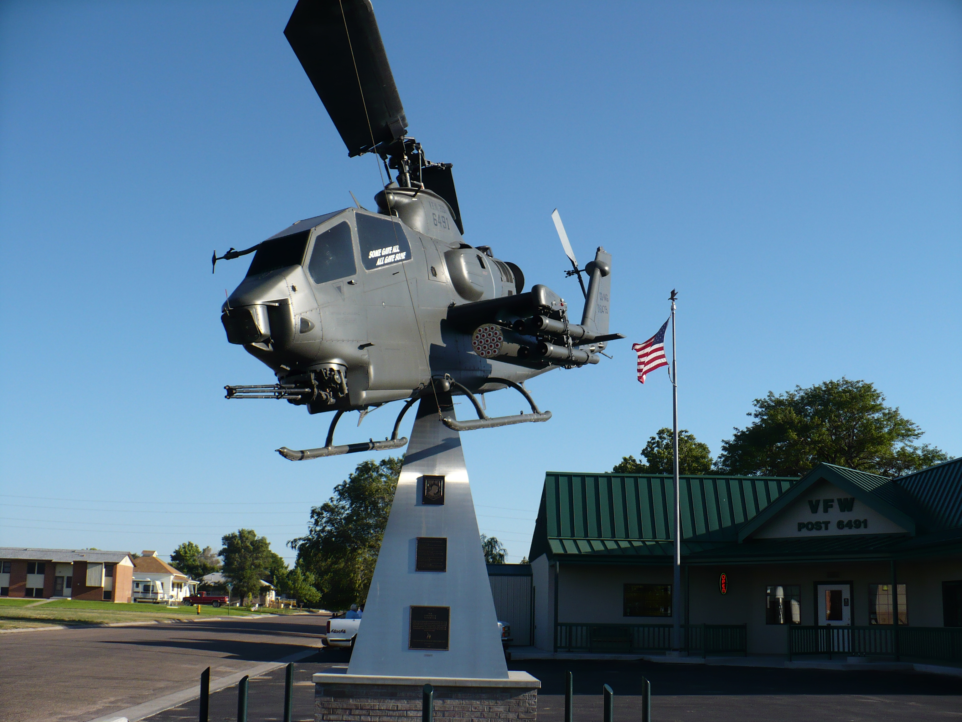 AH-1 on display in front of VFW Post 6491 in Burlington, Colorado